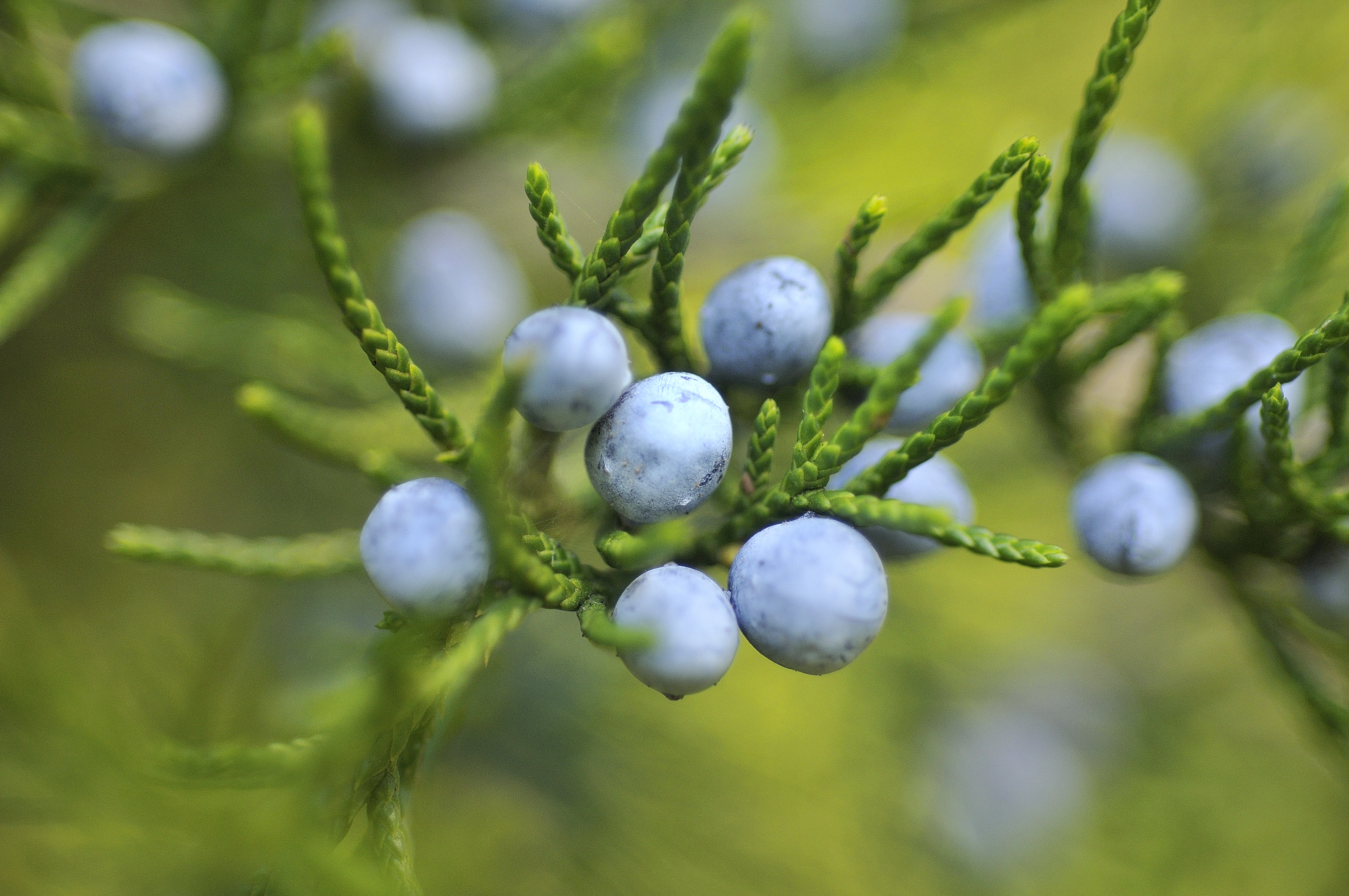 Juniper cones illustrating depth of field.